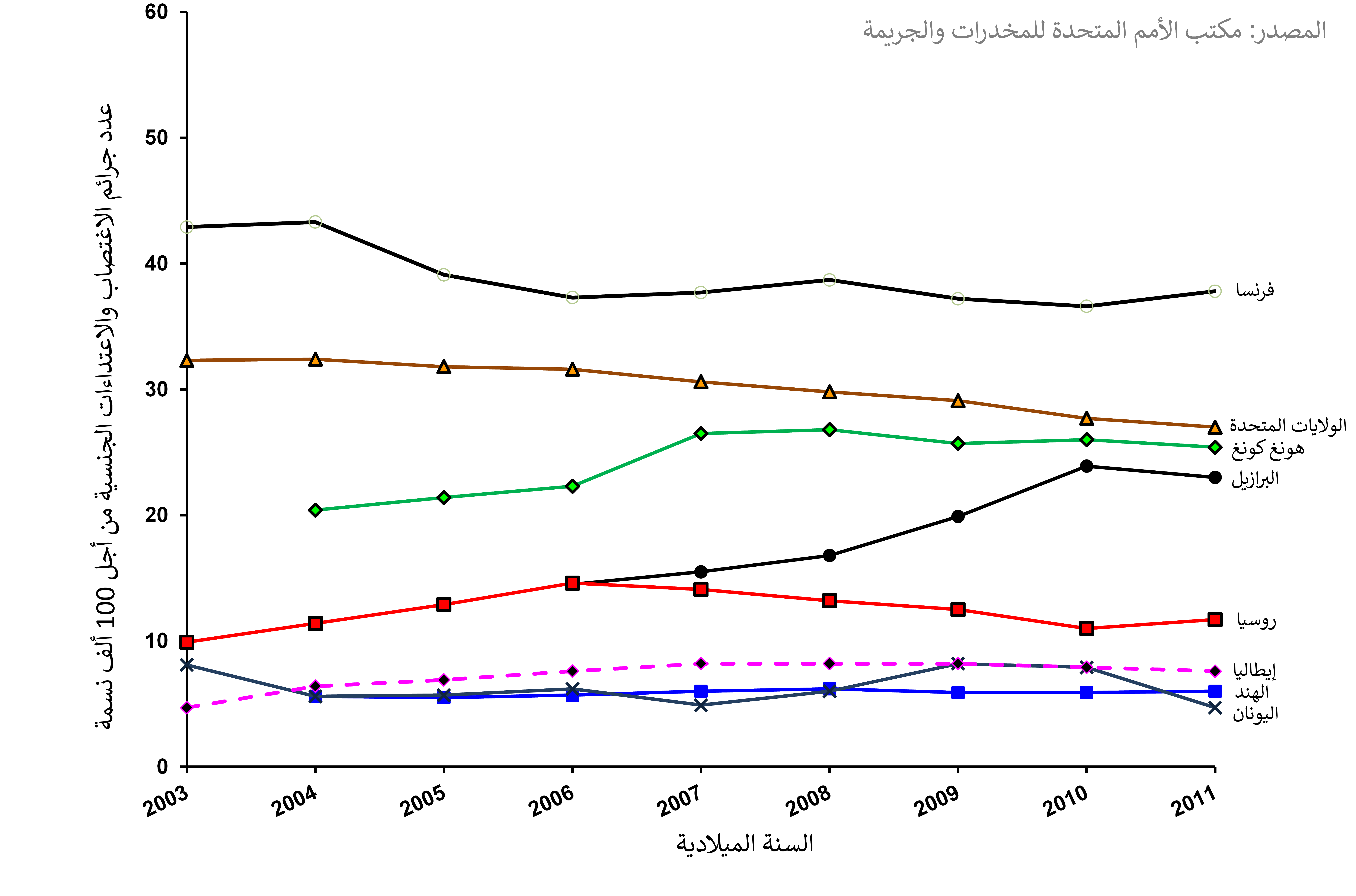 Rape and sexual assault rate trends among select countries - Brazil, Russia, Hong Kong (China), India, United States, France, Greece, Italy Rate is per 100,000 people over 2003 to 2011.